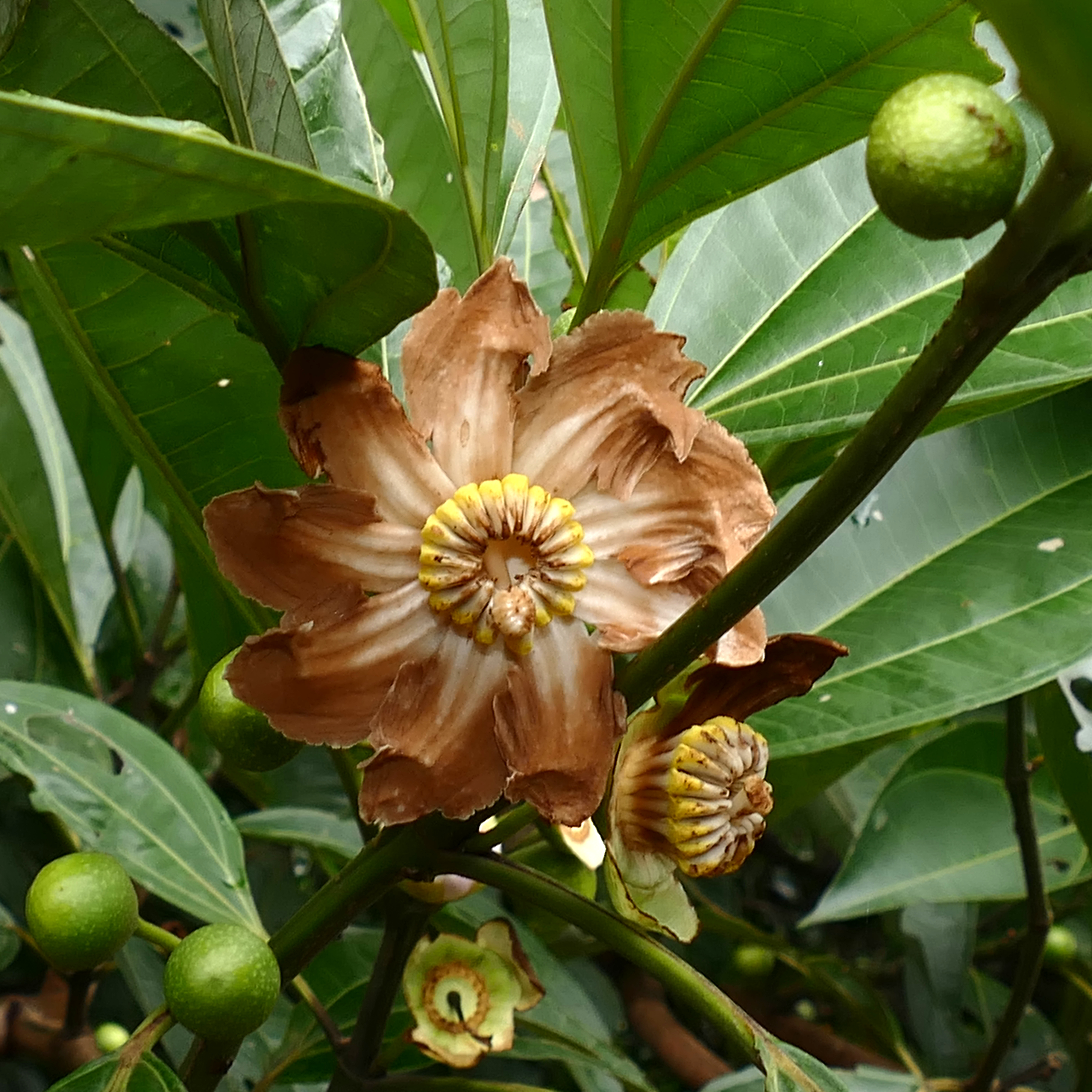 D6 Route de Kaw, Roura, French Guyana, FRANCE